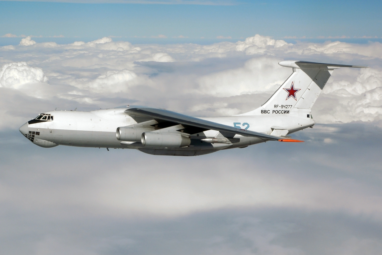 Ilyushin Il-78M inflight